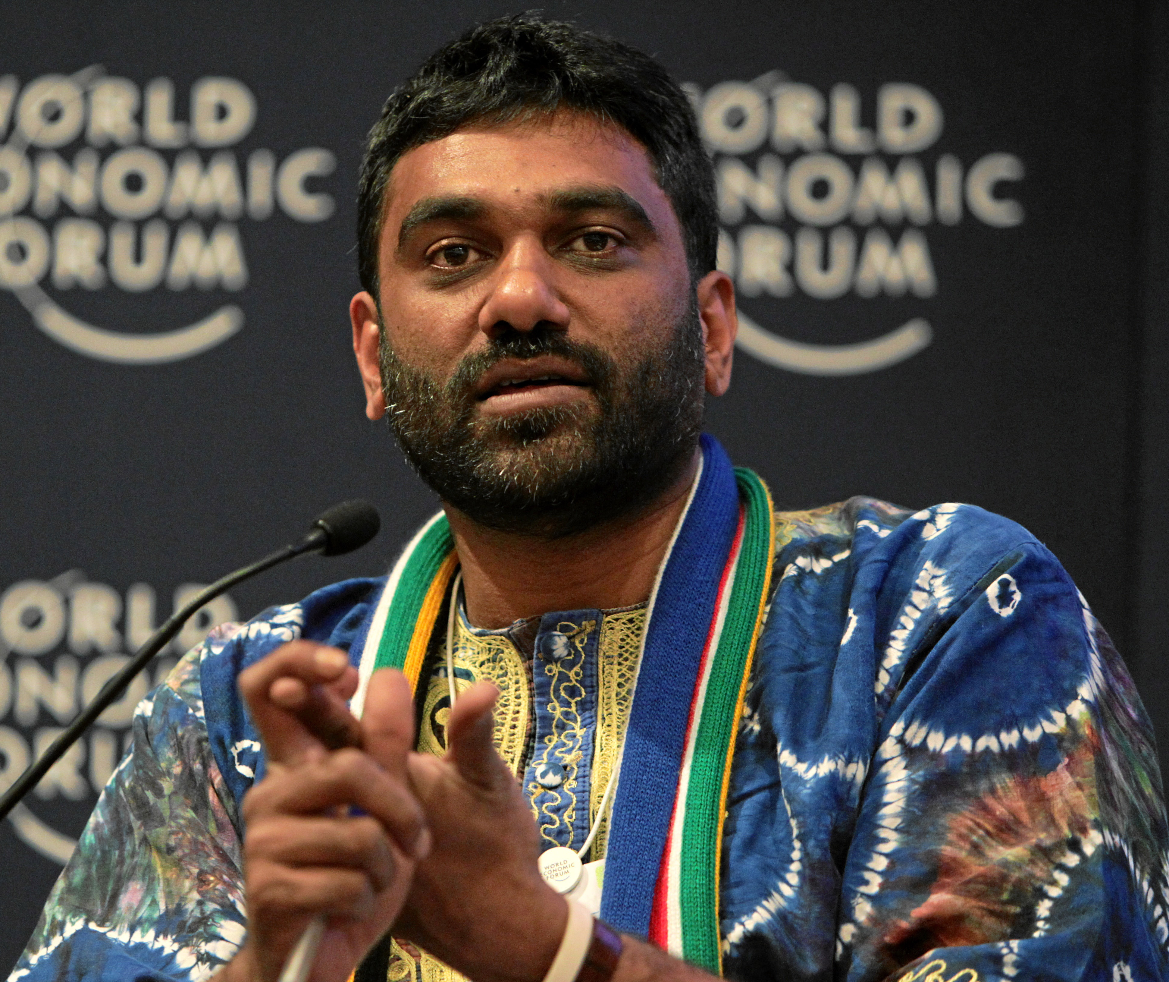 DAVOS/SWITZERLAND, 29JAN11 - Kumi Naidoo, Executive Director, Greenpeace International, Netherlands, speaks during the session 'Competing via Sustainability' at the Annual Meeting 2011 of the World Economic Forum in Davos, Switzerland, January 29, 2011.. . Copyright by World Economic Forum. by Sebastian Derungs